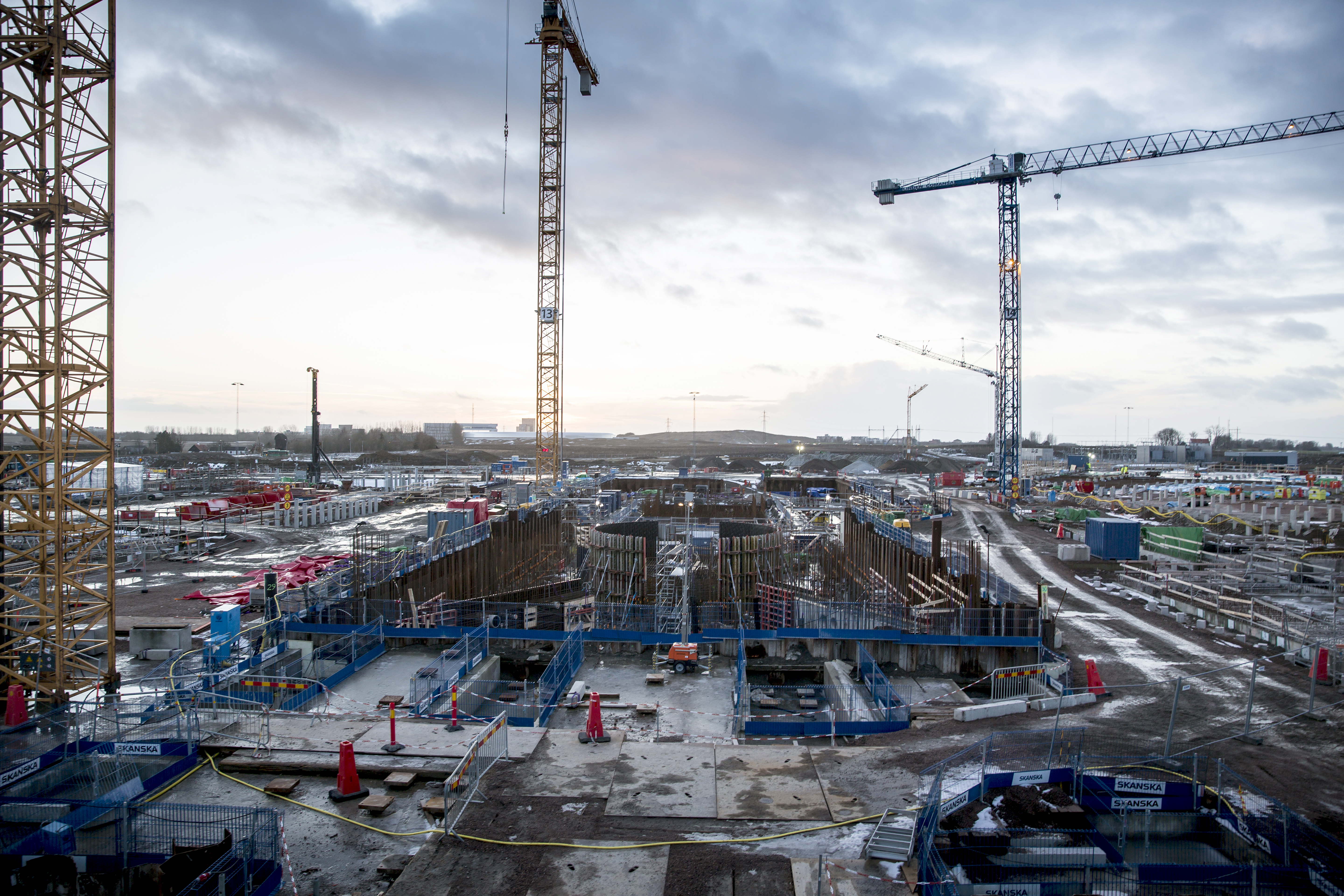 Building of European Spallation Source - view on target building (round).